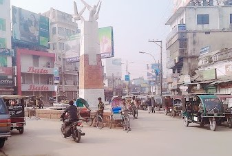 Payra chattar Rangpur